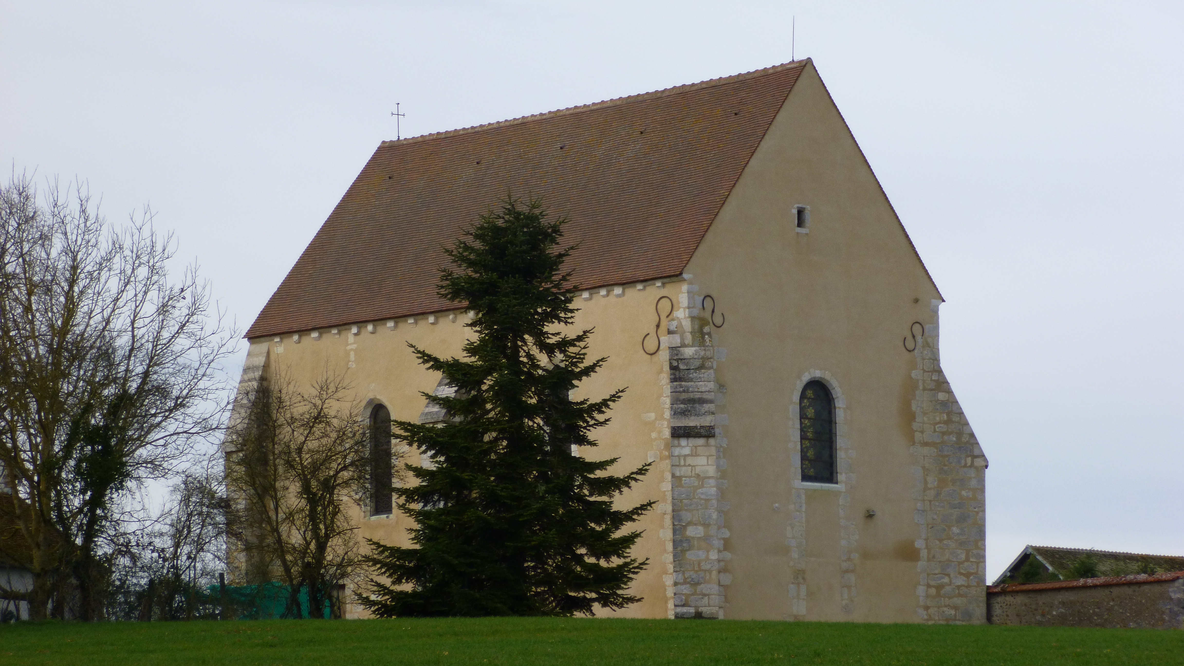 Chambeugle, Yonne, Burgundy, France. Previously the seat of a Templar establishment, only this 12th century chapel remains. Viewed from the D16 road, south -(zoom).